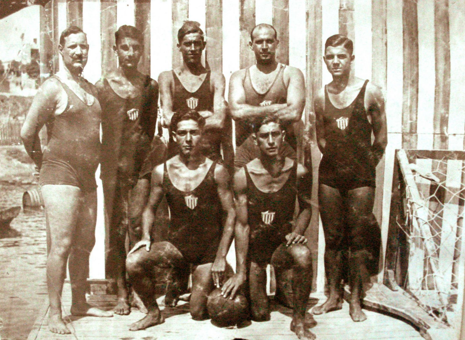 The 1927 team of Olympiacos Water Polo Club. From left to right: Emmanouil Baltatzis-Mavrokordatos, Ioannis Papadakis, A. Athanasianos, Nikolaos Baltazis-Mavrokordatos, Chr. Siadimas, N. Kivotos and C. Kordopatis.